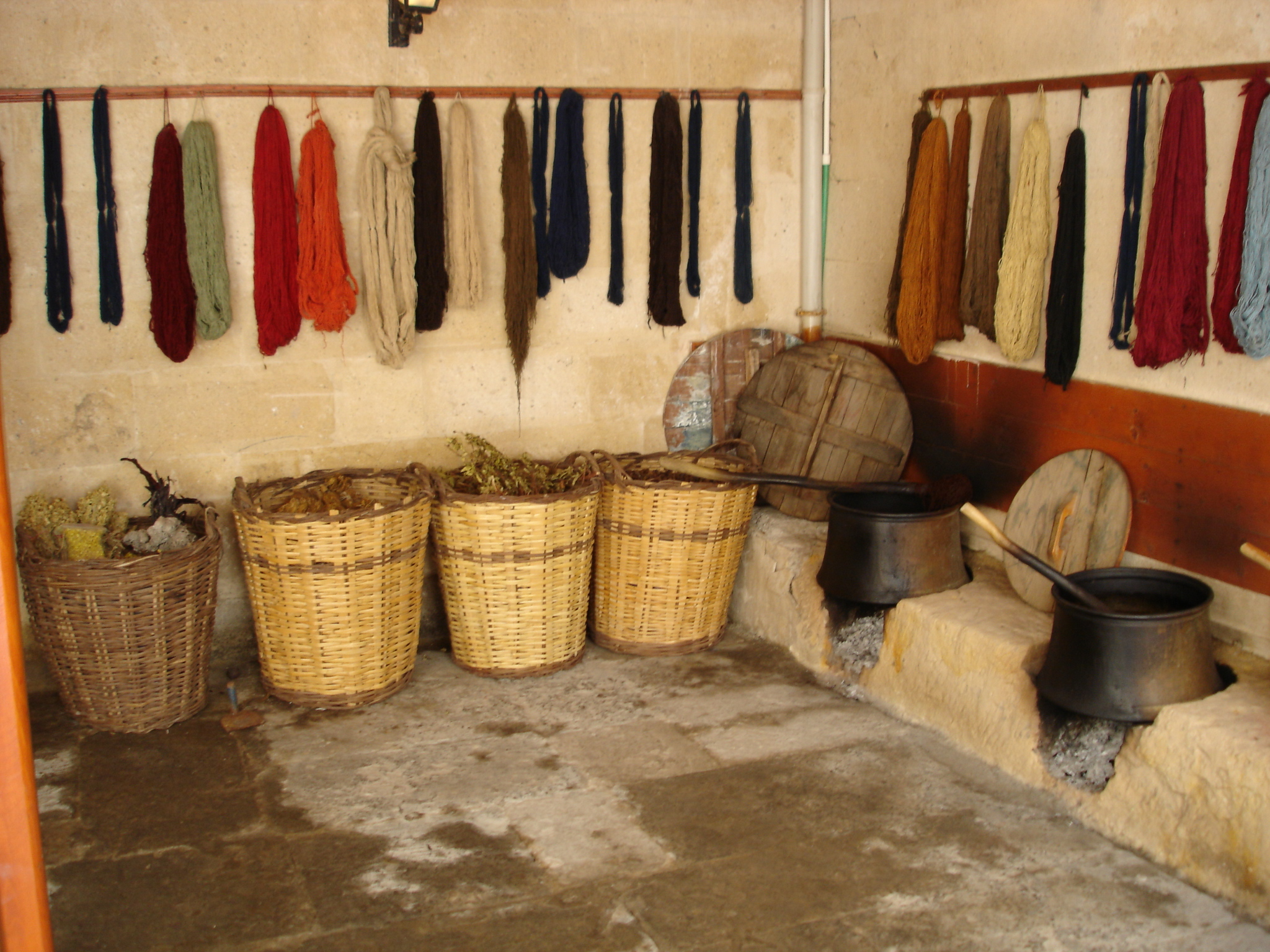 dye works